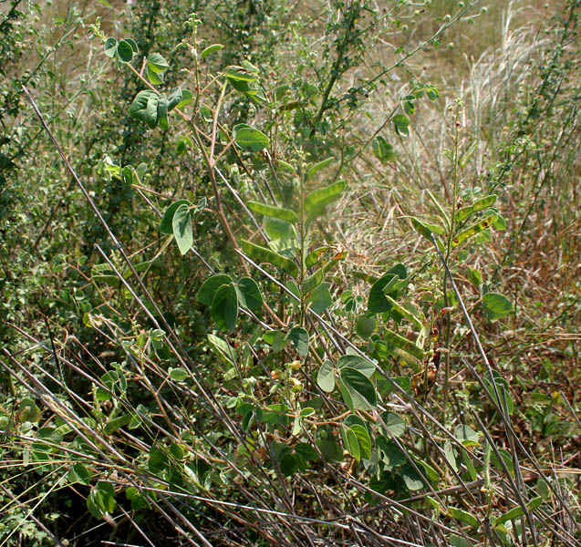 Chamaecrista absus (L.) H. S. Irwin & Barneby (syn. Cassia absus L.)- Jasmeejaz, Chaksu, chakushya, chimed- in Herbal Garden, in Rangareddy district of Andhra Pradesh, India.